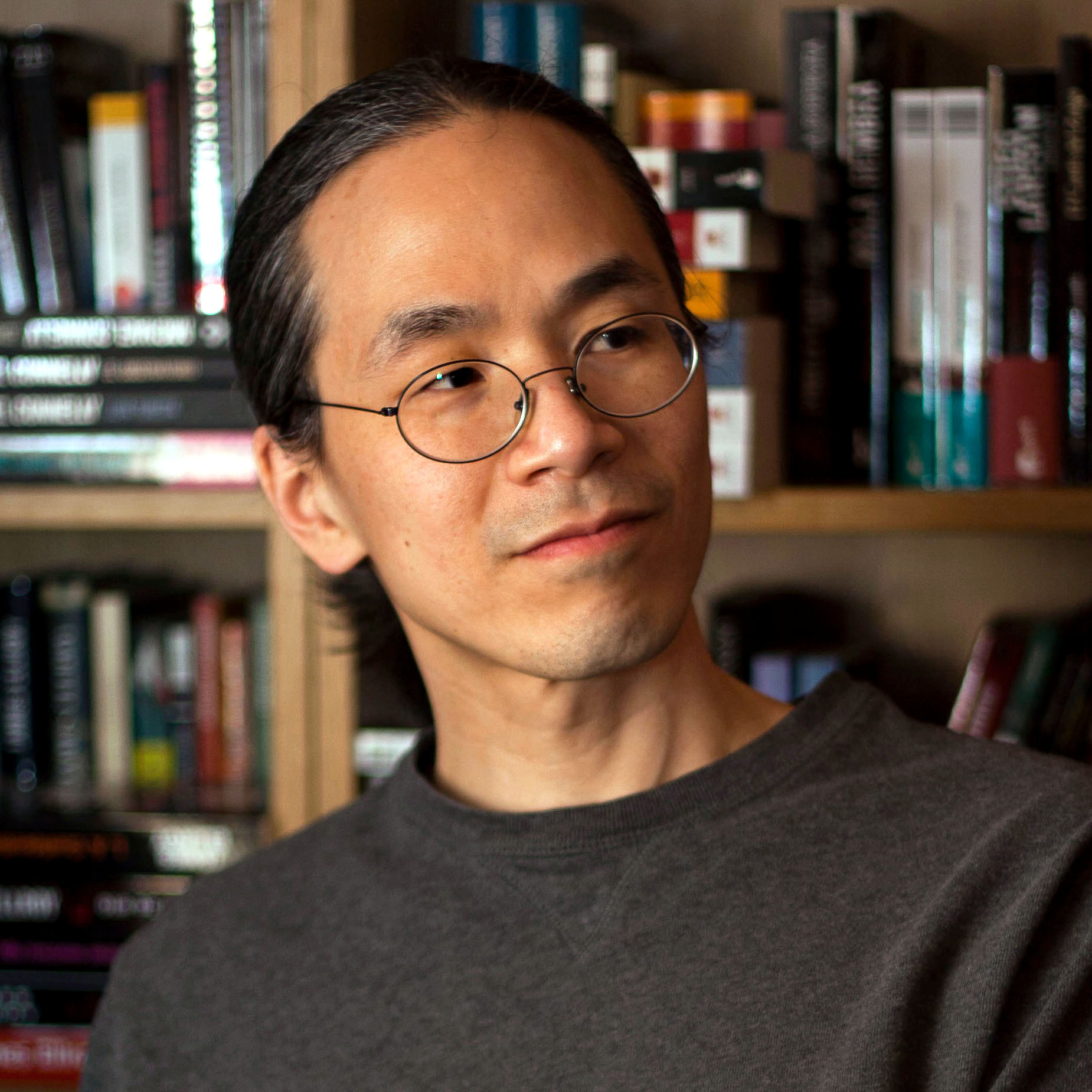 Ted Chiang, American science fiction author. Taken at 'Estudio en escarlata' library, Madrid, Spain, 24/02/2011.